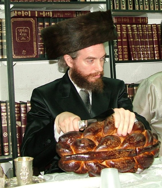 Motza'ei Shabbat (Saturday night)